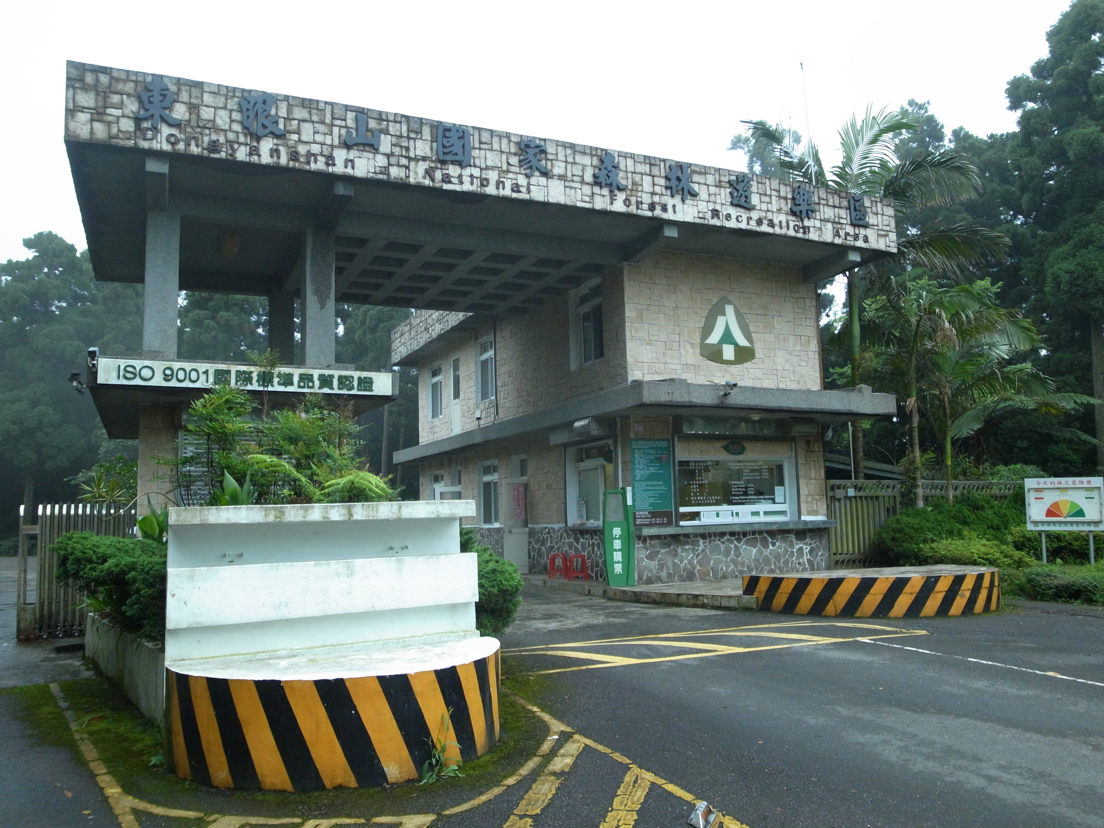 Dong-Yan-Shan National Forest Recreational Area中文（中国大陆）: 东眼山国家森林游乐区